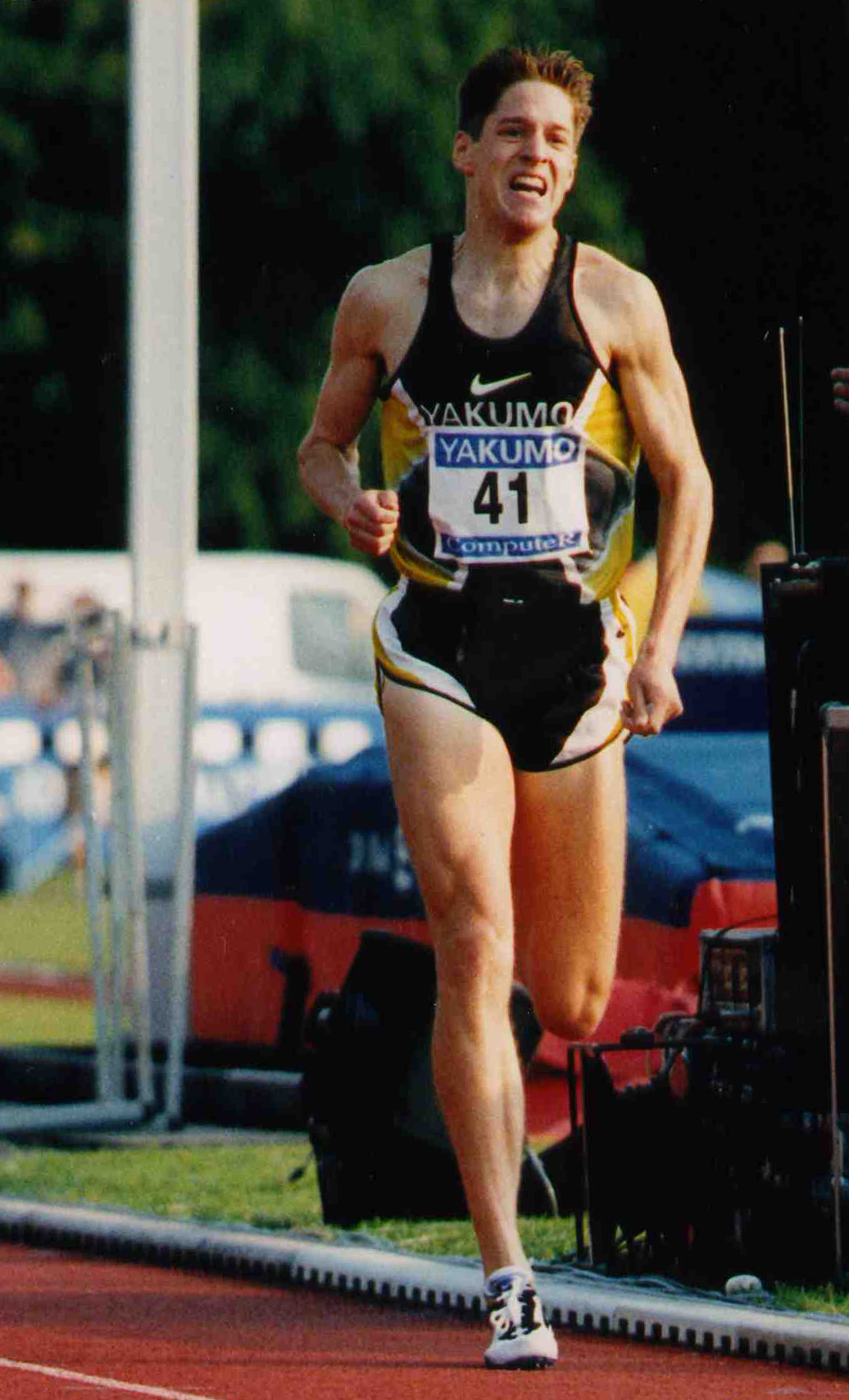 Marko Koers, a former Dutch athlete.